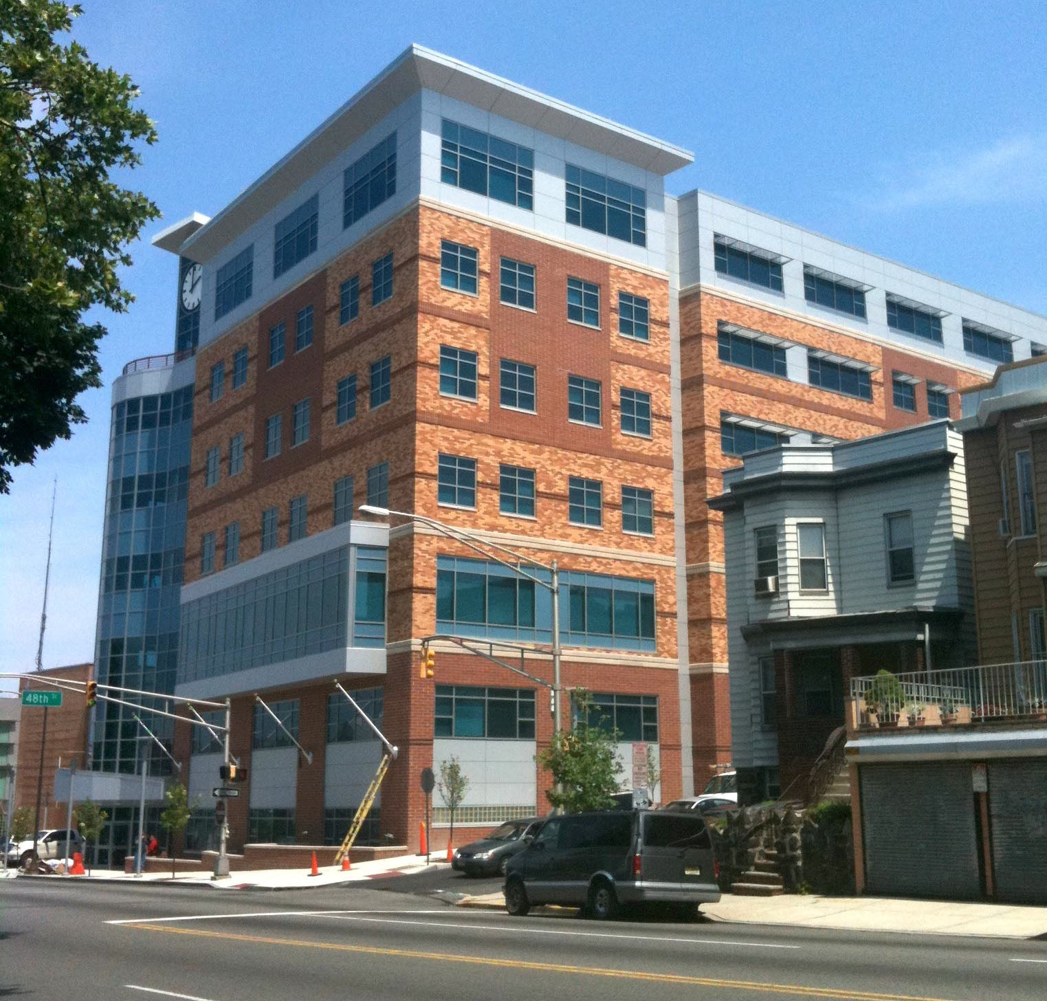 The nearly complete Hudson County Community College North Campus in Union City, New Jersey, as seen on June 15, 2011. Photographed by Luigi Novi. This photo is not in the public domain. It may, however, be used, modified and published for any purpose, only if an easily visible credit to the photographer is placed near the photo in each instance in which it is used. (See licensing information below.) Publication of this photo without this proper attribution constitutes copyright infringement. If you have any questions, you can contact me on my Wikipedia Talk Page.